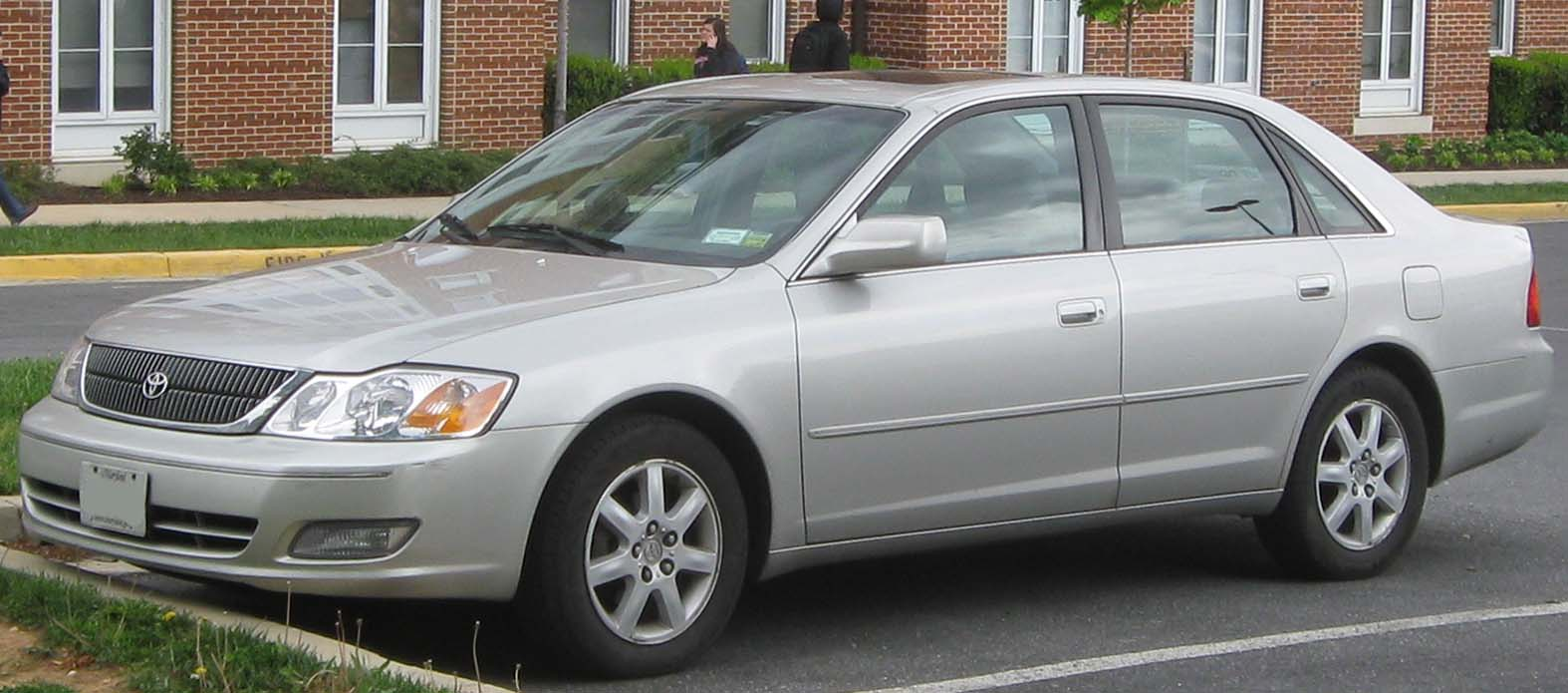 2000-2002 Toyota Avalon XLS photographed in College Park, Maryland, USA.